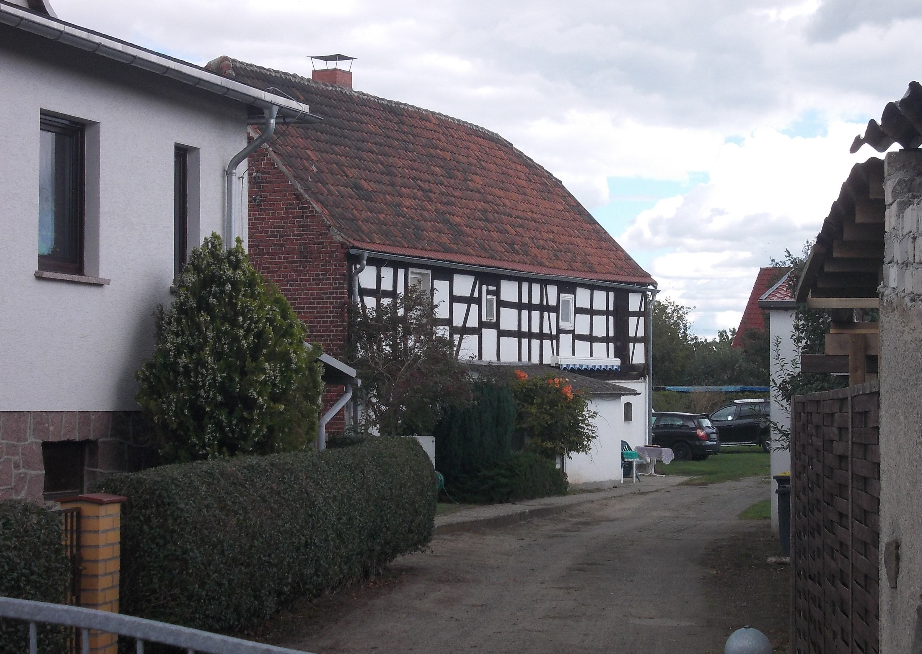 No. 5, Hauptstrasse in Kölsa (Falkenberg/Elster, Elbe-Elster district, Brandenburg)